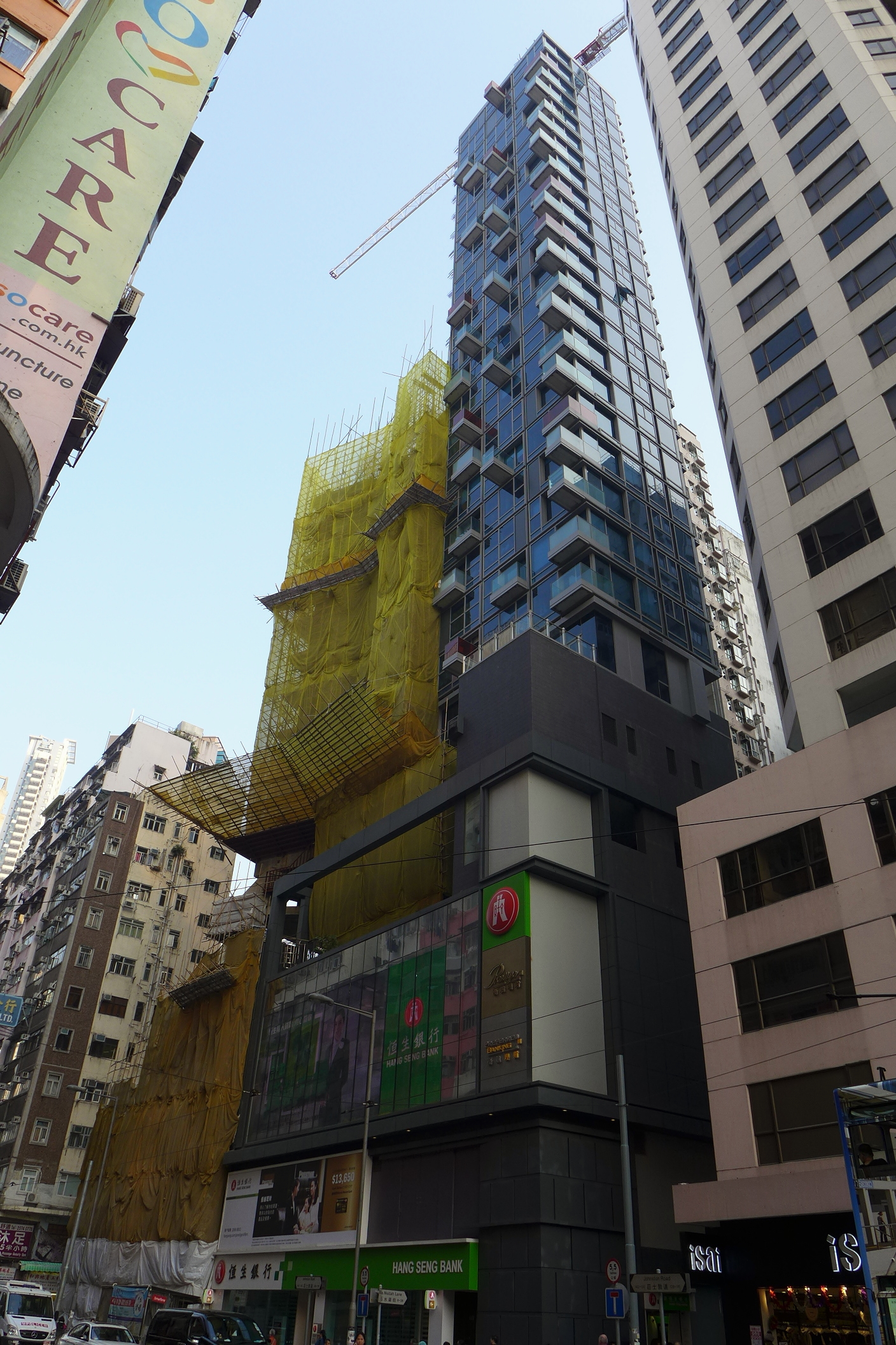 Johnston Road Former Lung Moon Restuarant site